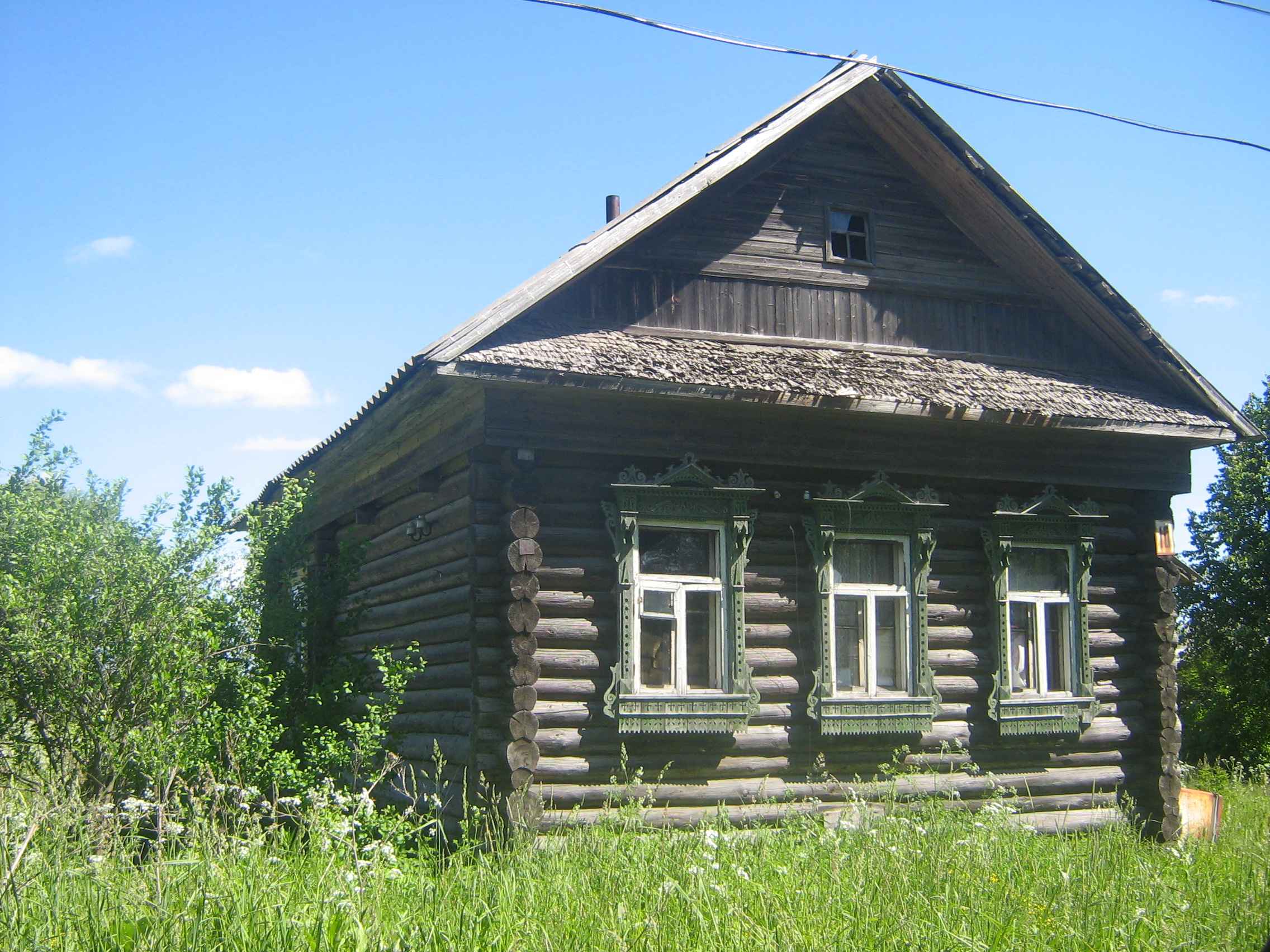 Russian izba in the village Kushalino, Rameshkovsky rayon, Tver Oblast